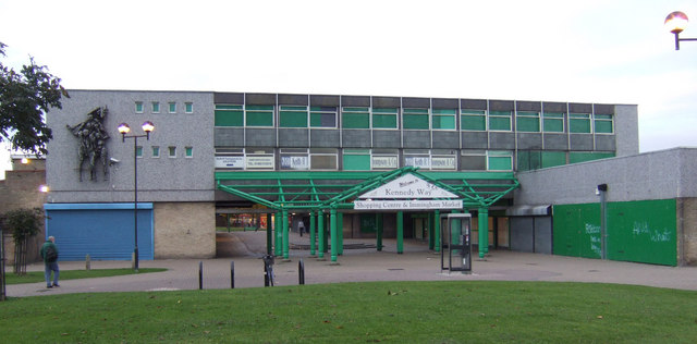 Kennedy Way Shopping Centre. Oh dear! All the life seems to have gone from this 1960's shopping precinct. See 106579 for a scene just five years ago. I can personally vouch for the vibrant place this was in the 1970's.